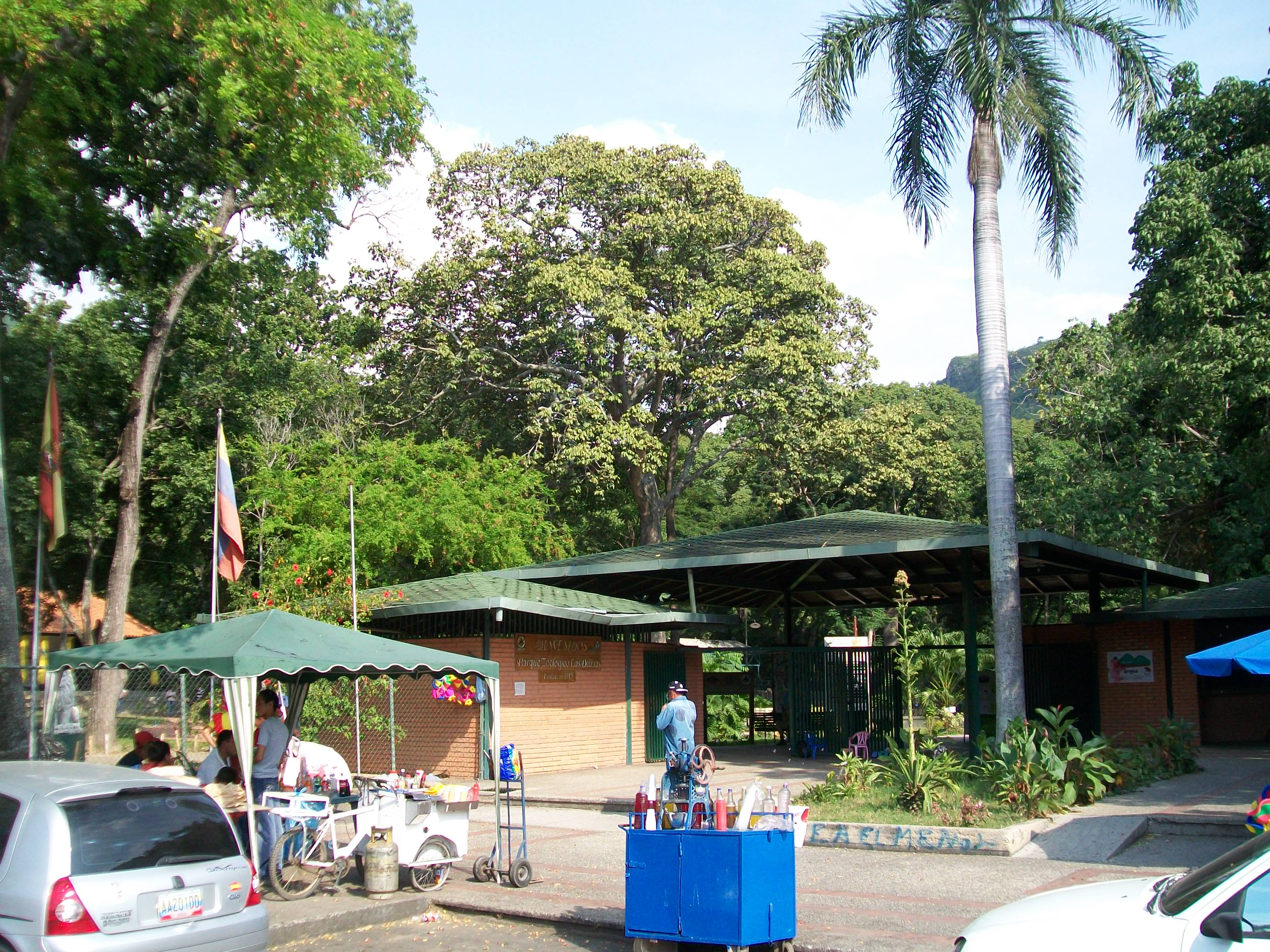 Main entrance of the Zoo park in Maracay, Venezuela.